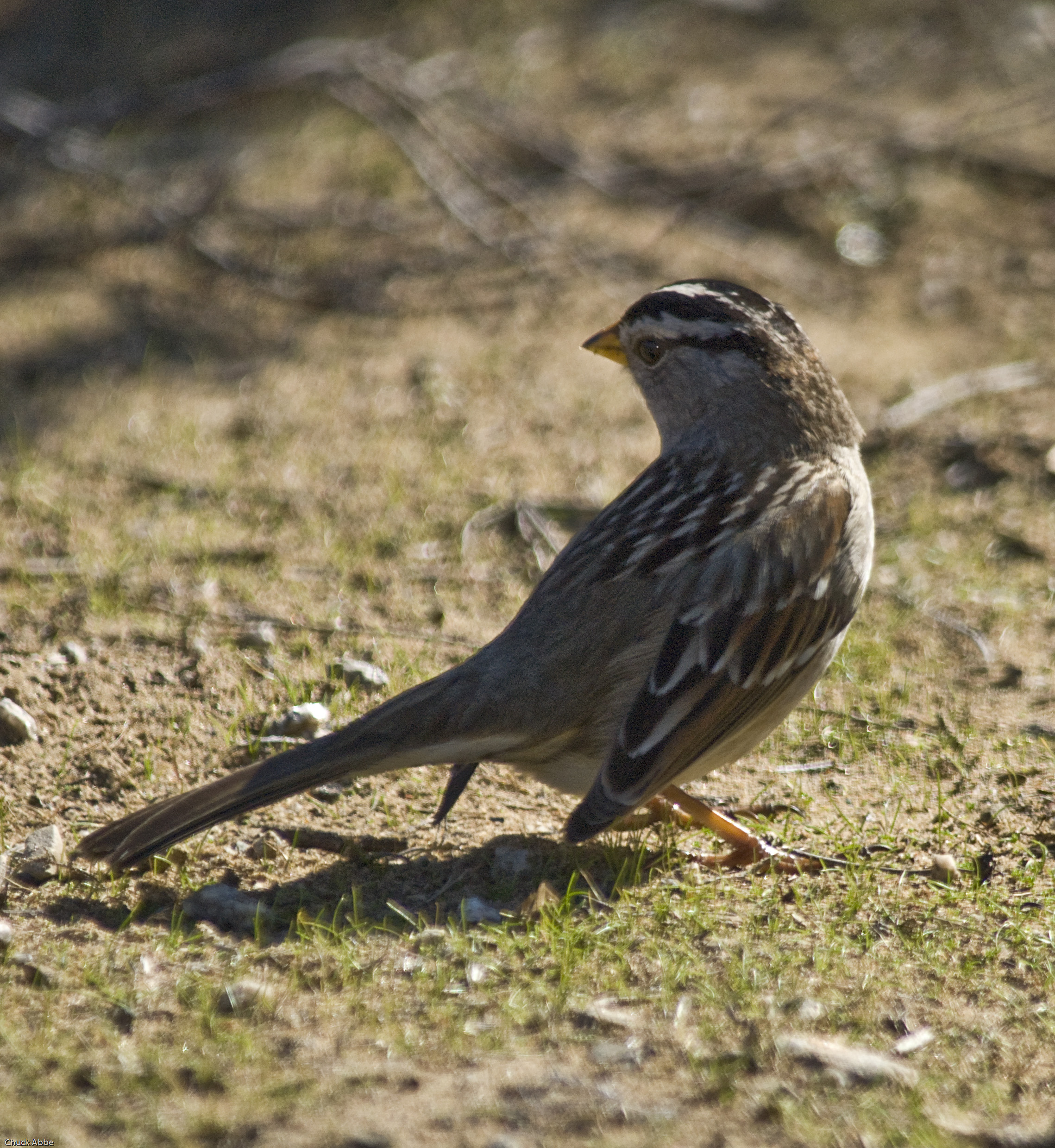 White-crowned Sparrow